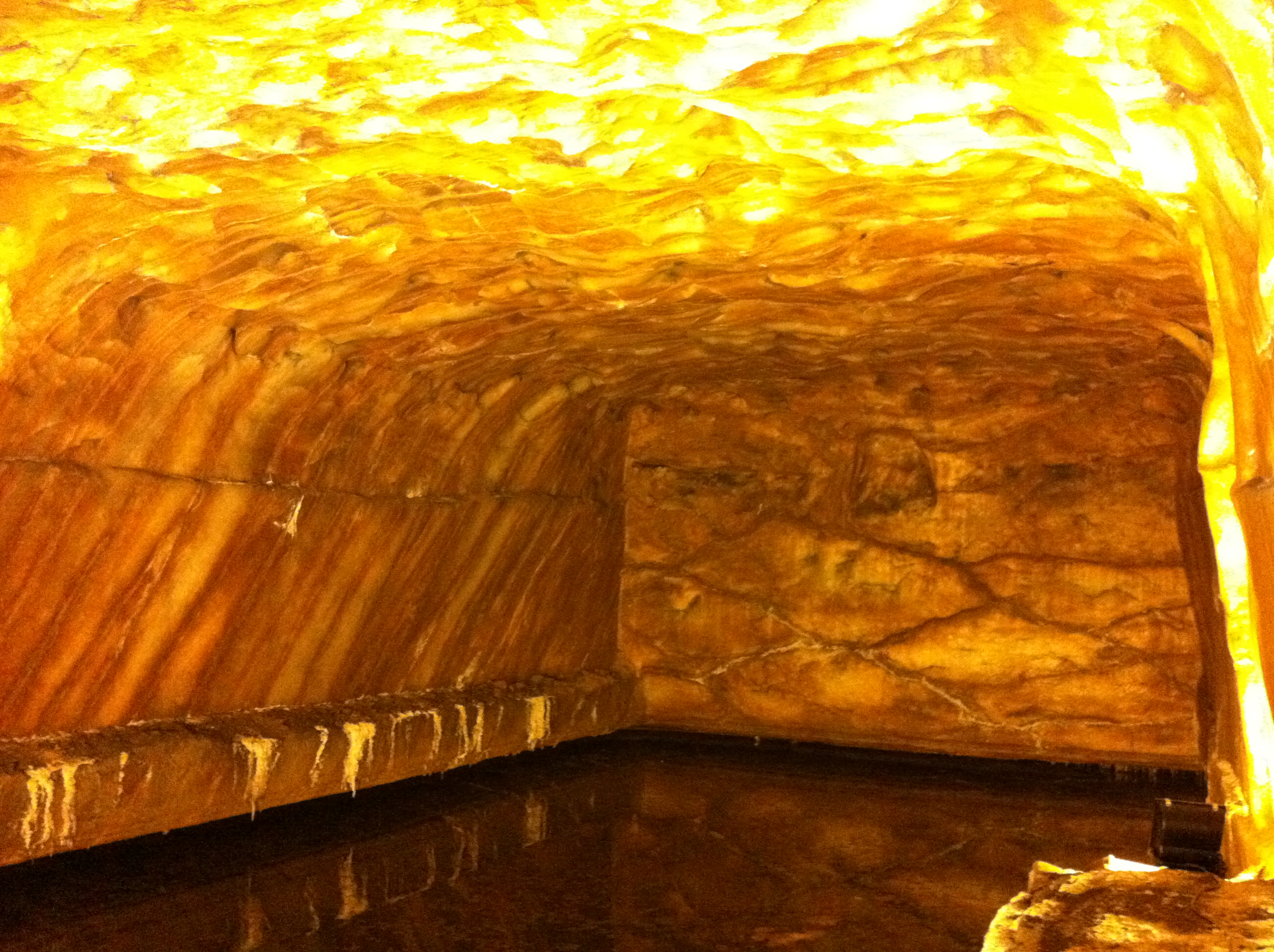 Khewra Salt Mine - Mined area from Mughal Times